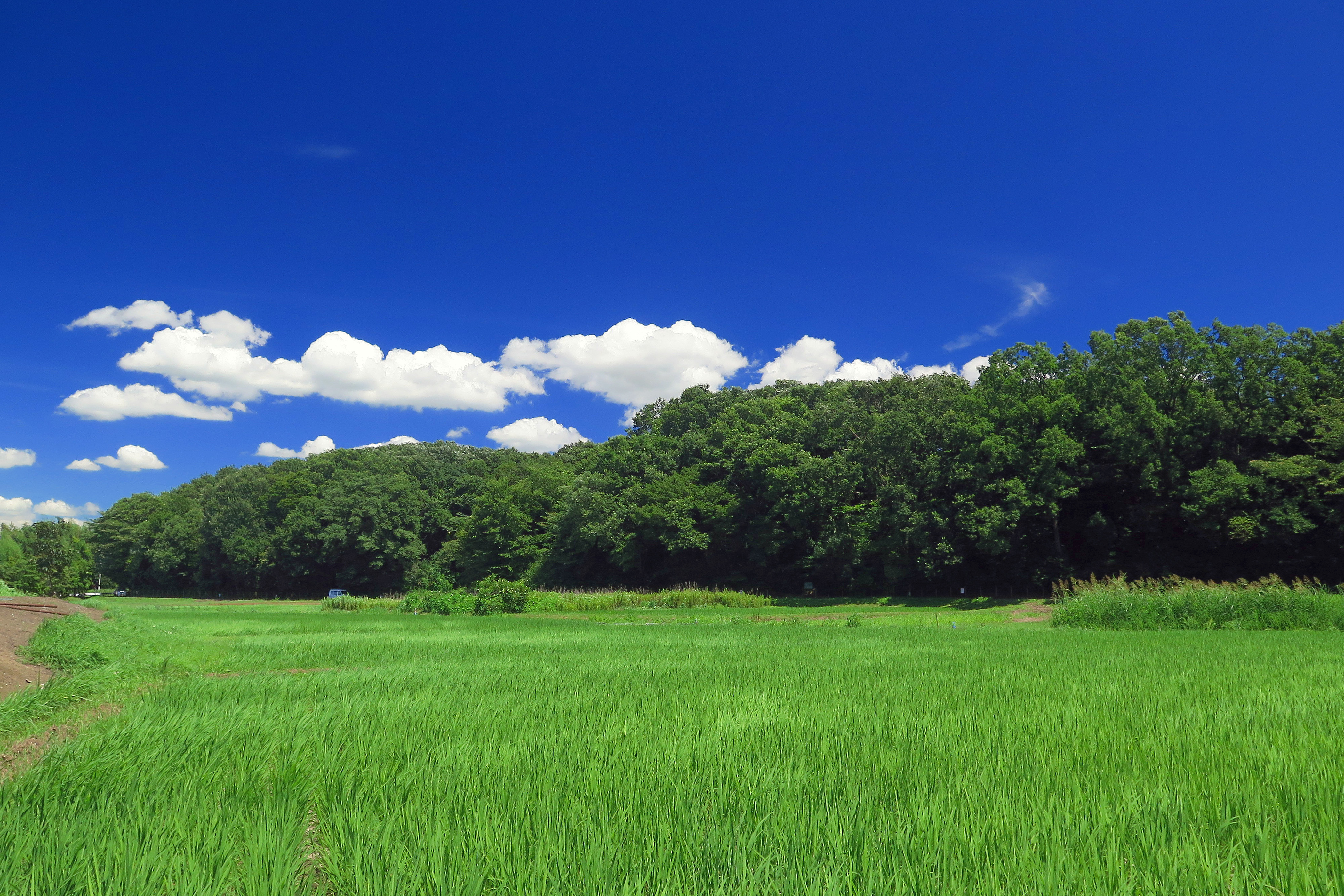 Iwatsuki Ningyo Museum Ageo-city, Saitama, Japan.